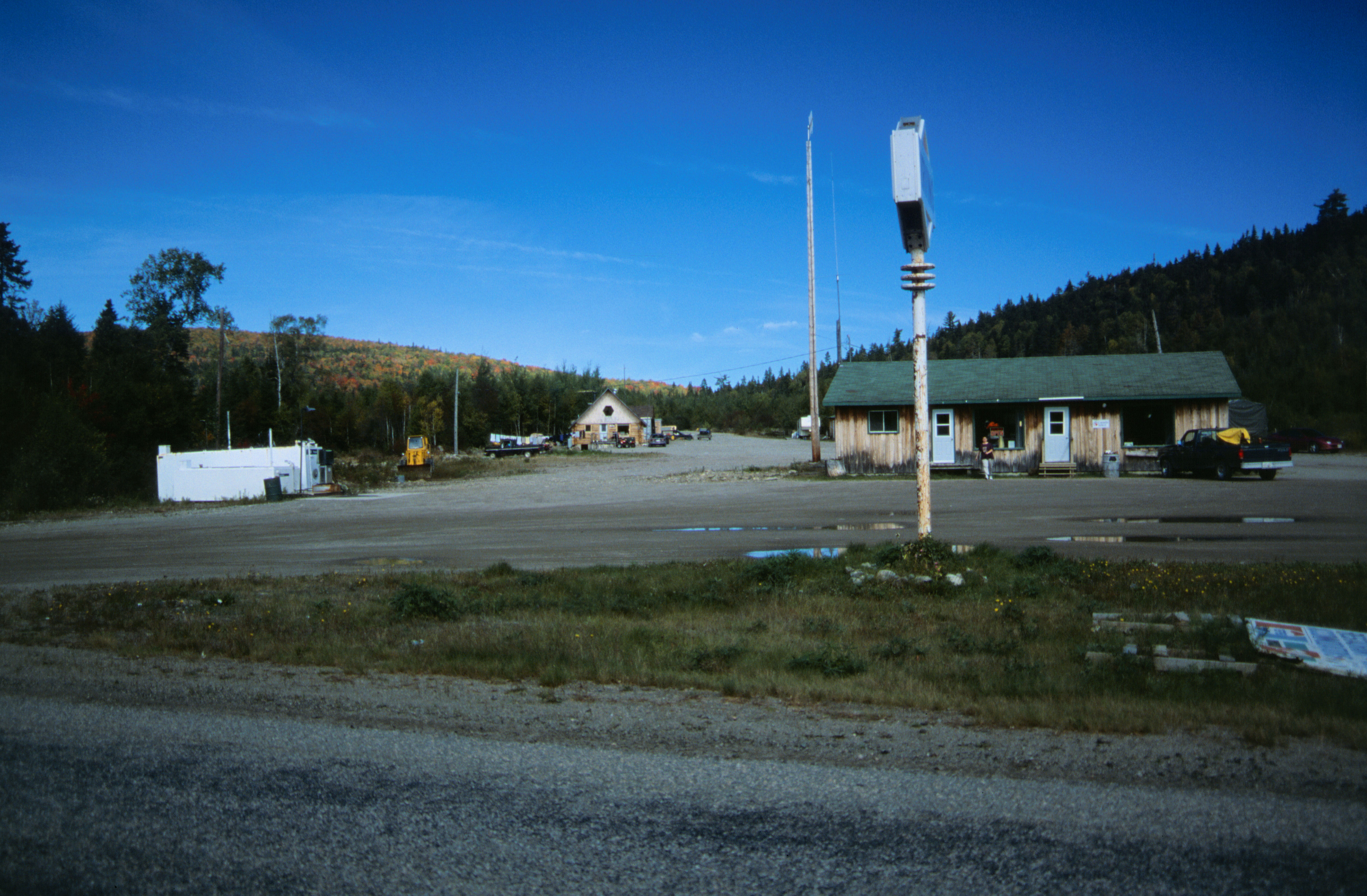 A small restaurant at the New Brunswick Route 108, picture #2